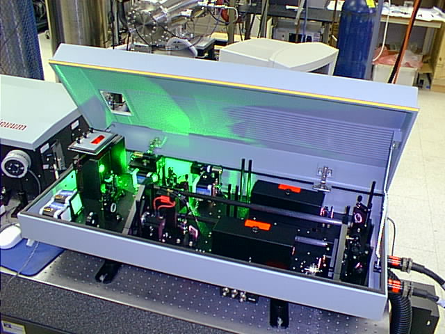 Continuum Powerlite 8000 Nd:YAG laser.